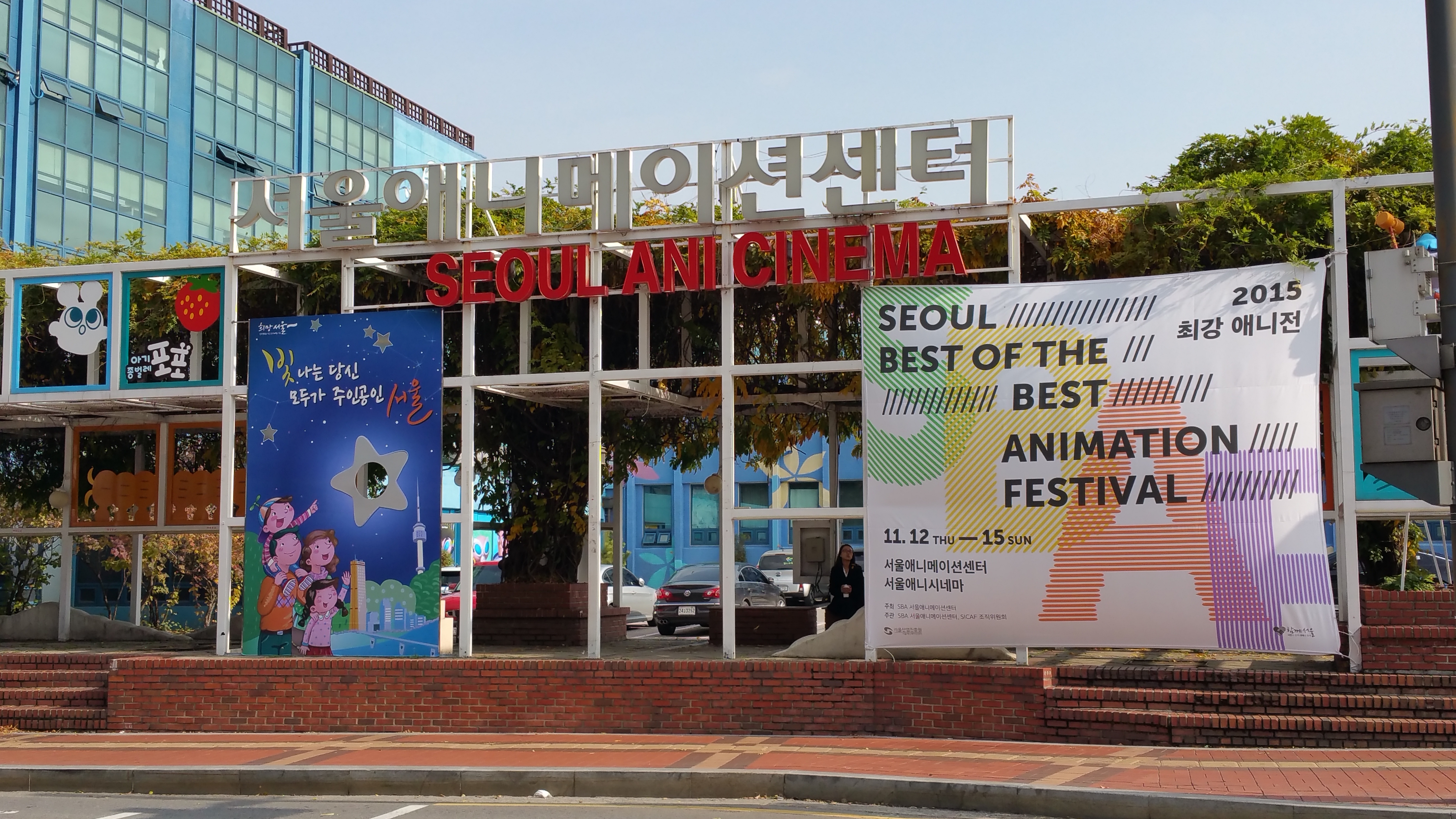 Seoul Animation Center